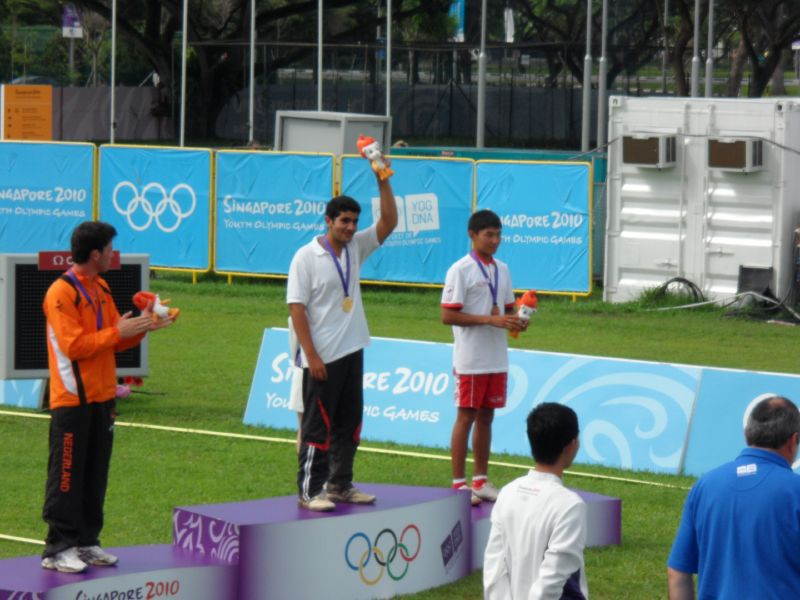 Egyptian archer Ibrahim Sabry on the victory podium after winning the gold medal in the Junior Men's Individual archery competition at the 2010 Summer Youth Olympics taking place at Kallang Field, Singapore.